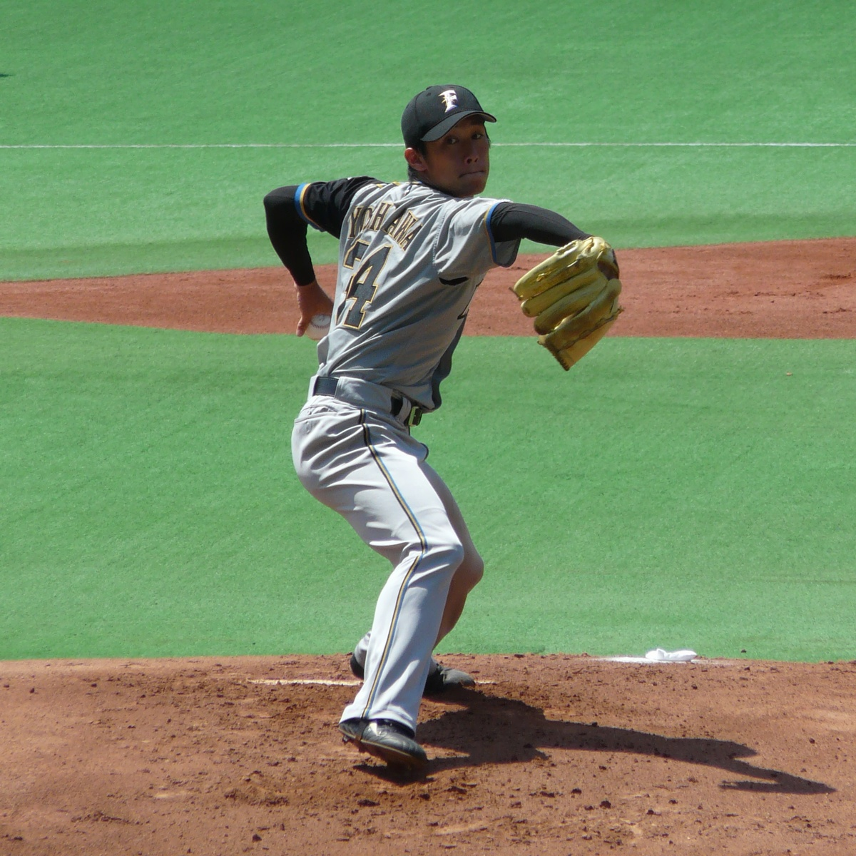 NF-Mitsuo-Yoshikawa20090825